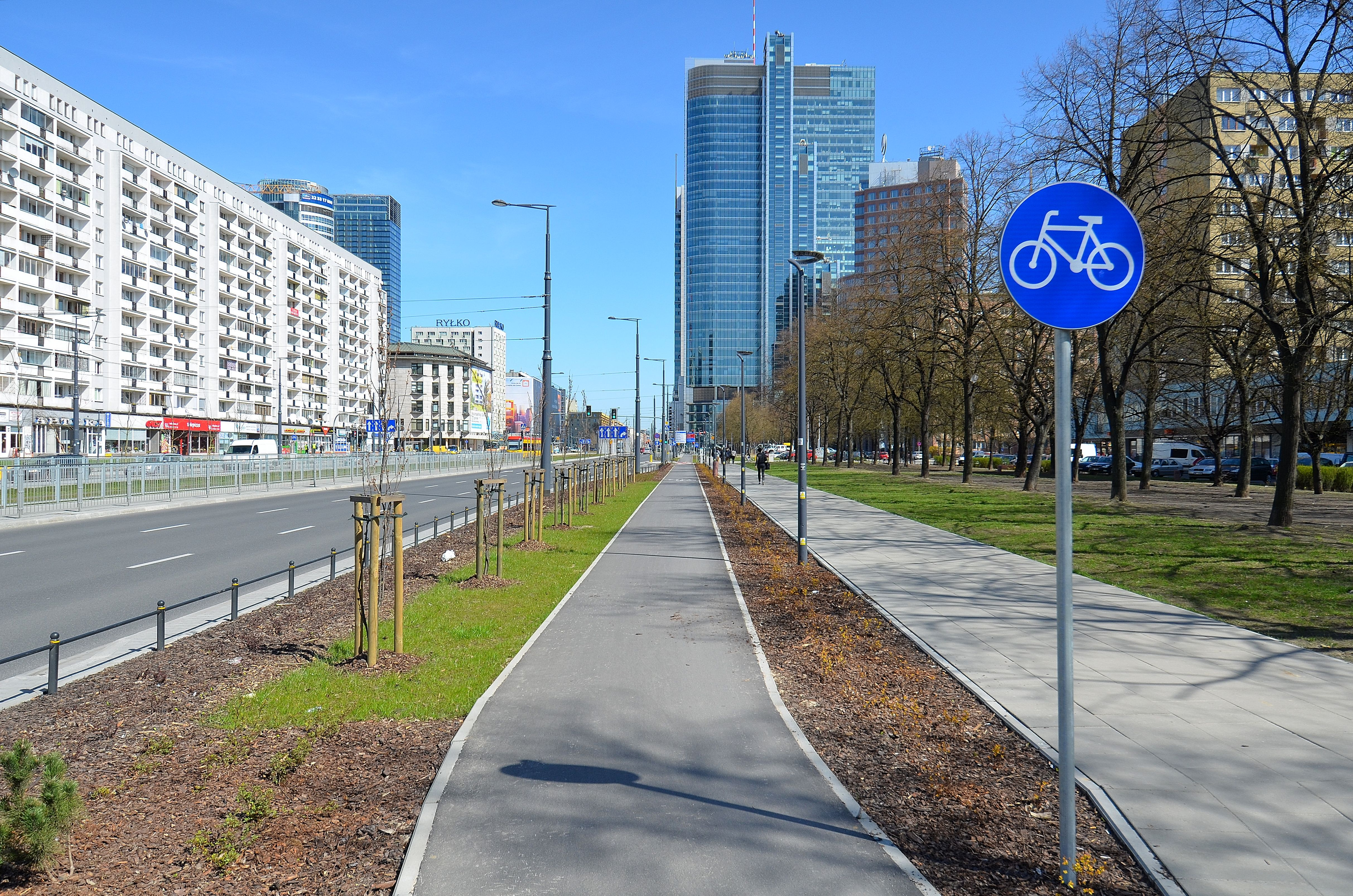 Prosta Street in Warsaw, view towards ONZ roundabout